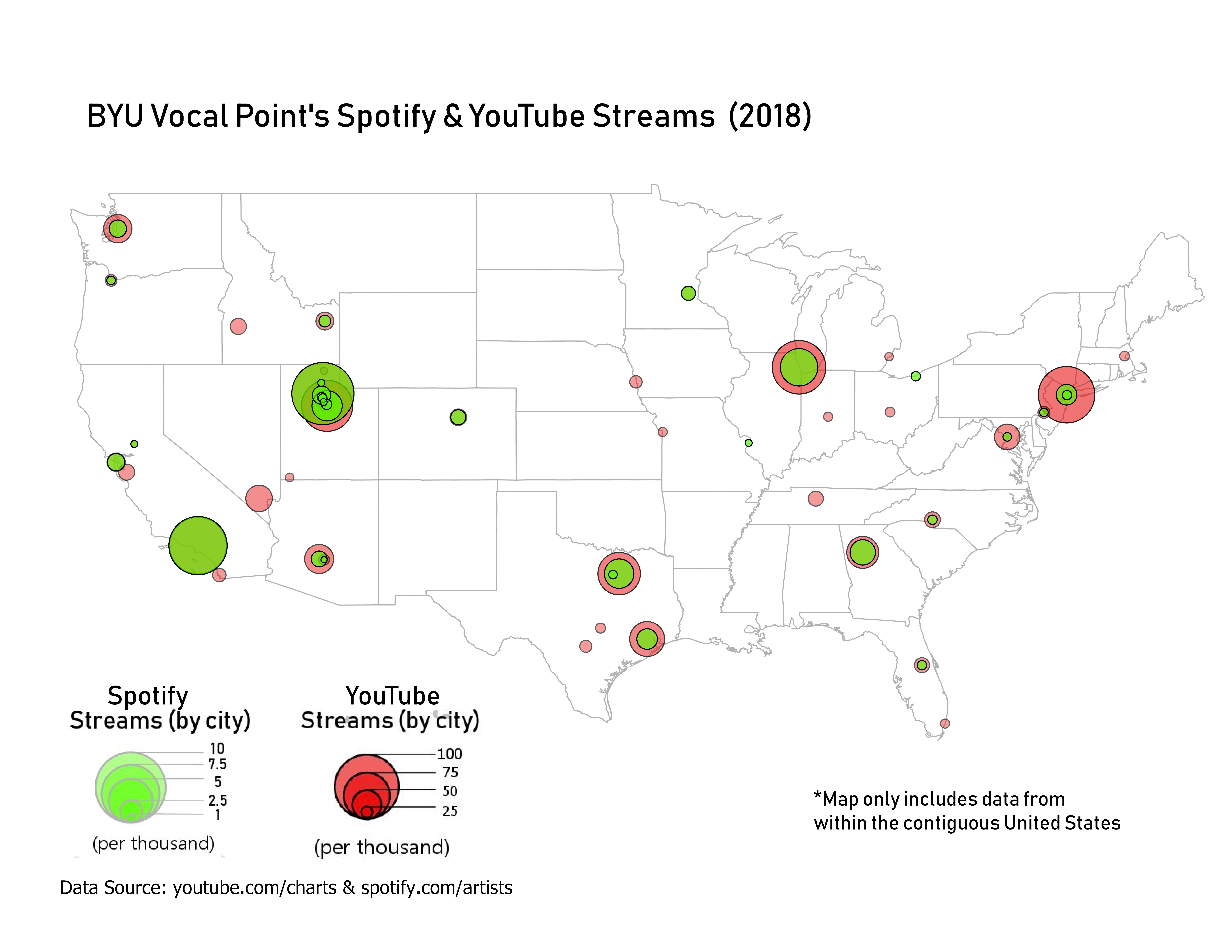 A proportional symbol map depicting the cities in the United States which have streamed BYU Vocal Point's music on YouTube or Spotify during 2018.